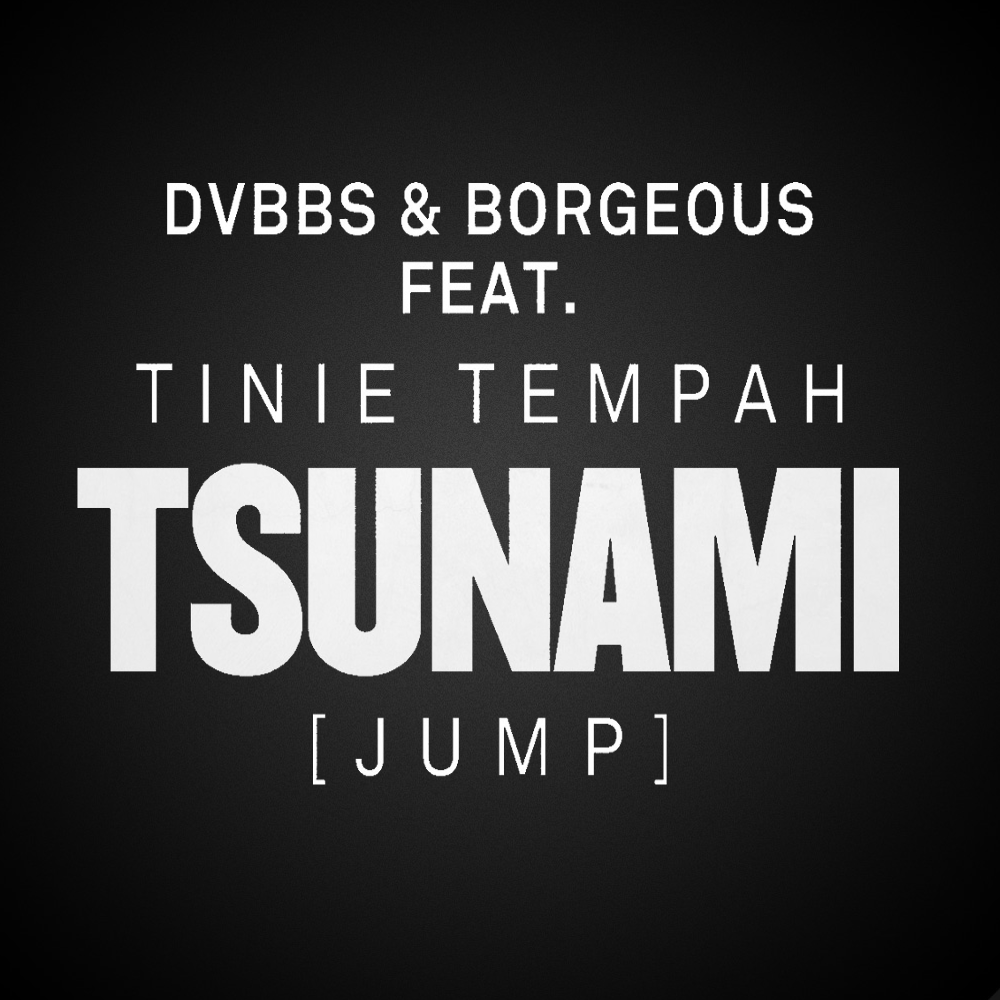 The single cover to DVBBS' singe Tsunami (Jump)